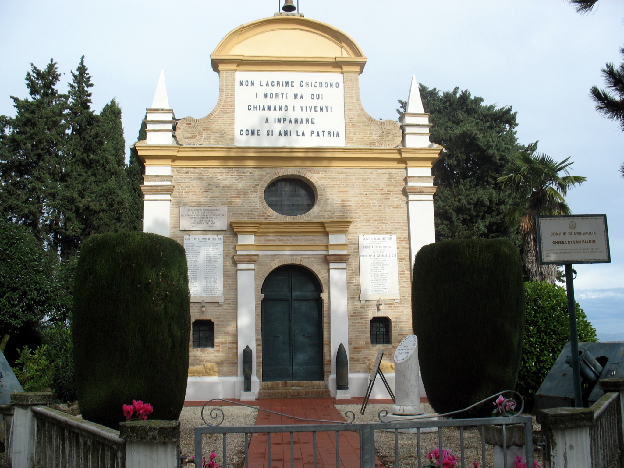 Chiesa di San Biagio - Museo delle armi